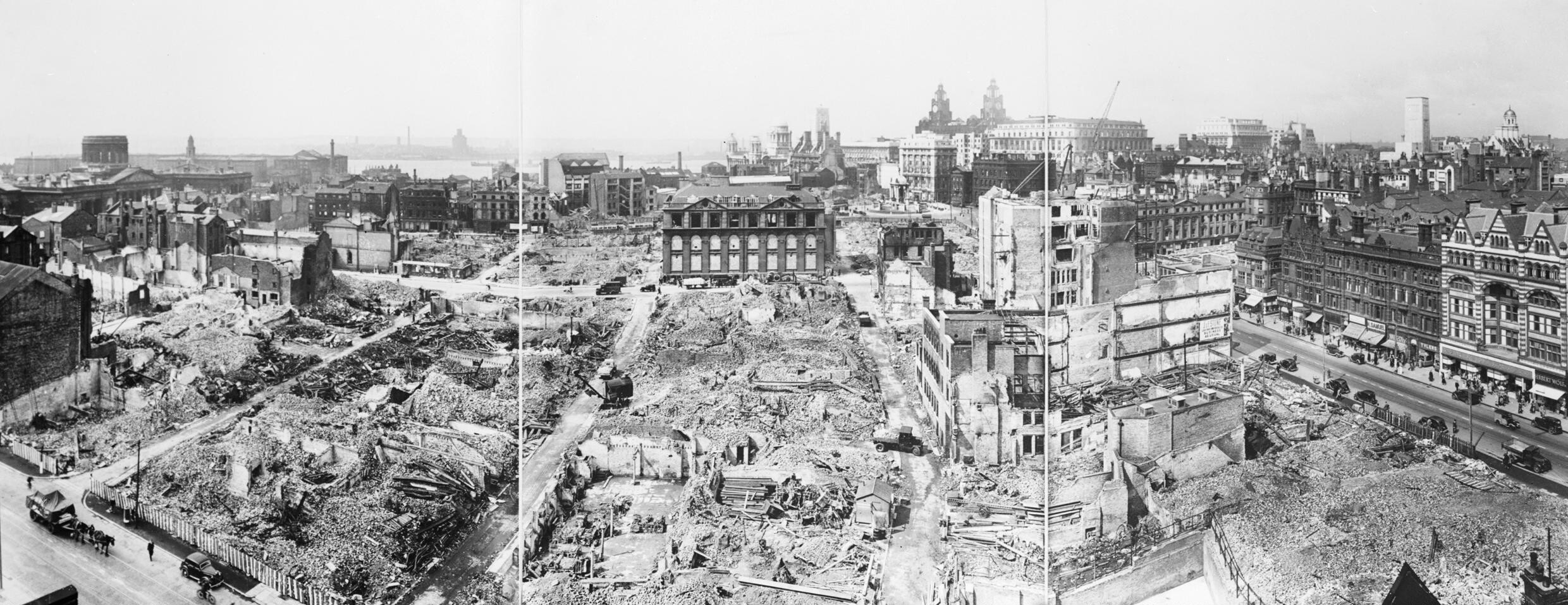 A panoramic view of bomb damage caused by the Liverpool Blitz. A panoramic view of the city of Liverpool, showing bomb damage received after an air raid. The Liver Building can be clearly seen just to the right of centre, and the River Mersey is just visible to the left of the photograph.